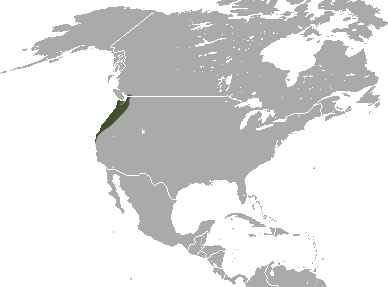 Marsh Shrew (Sorex bendirii) range